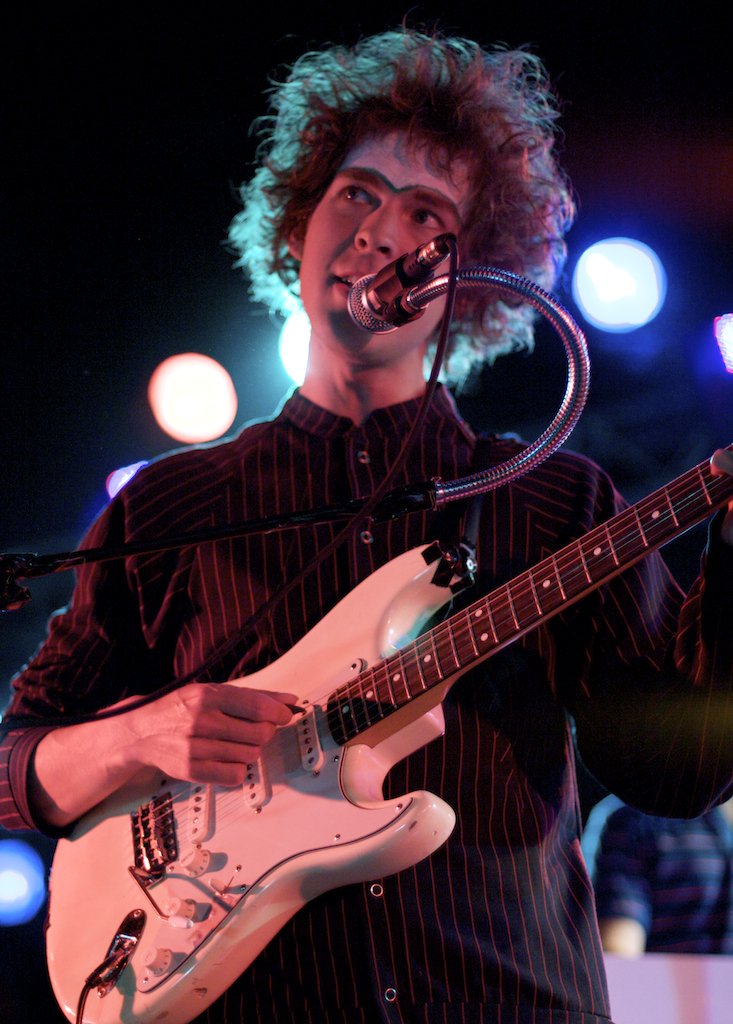 Leadsinger of Oh No Ono, Malthe Fischer.